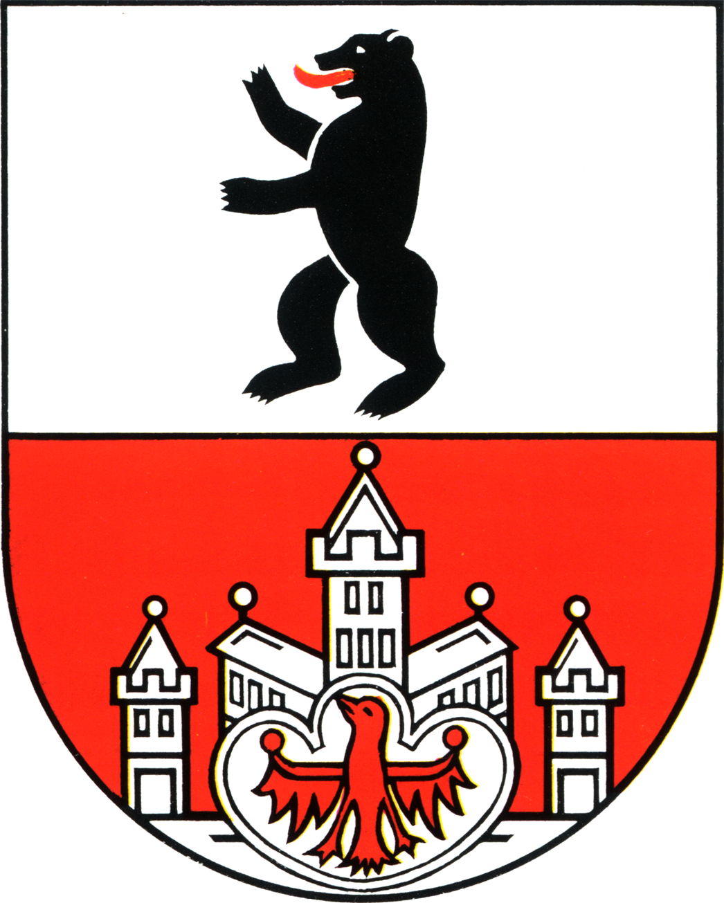 Coat of arms of Mitte, a former boroughs of Berlin.